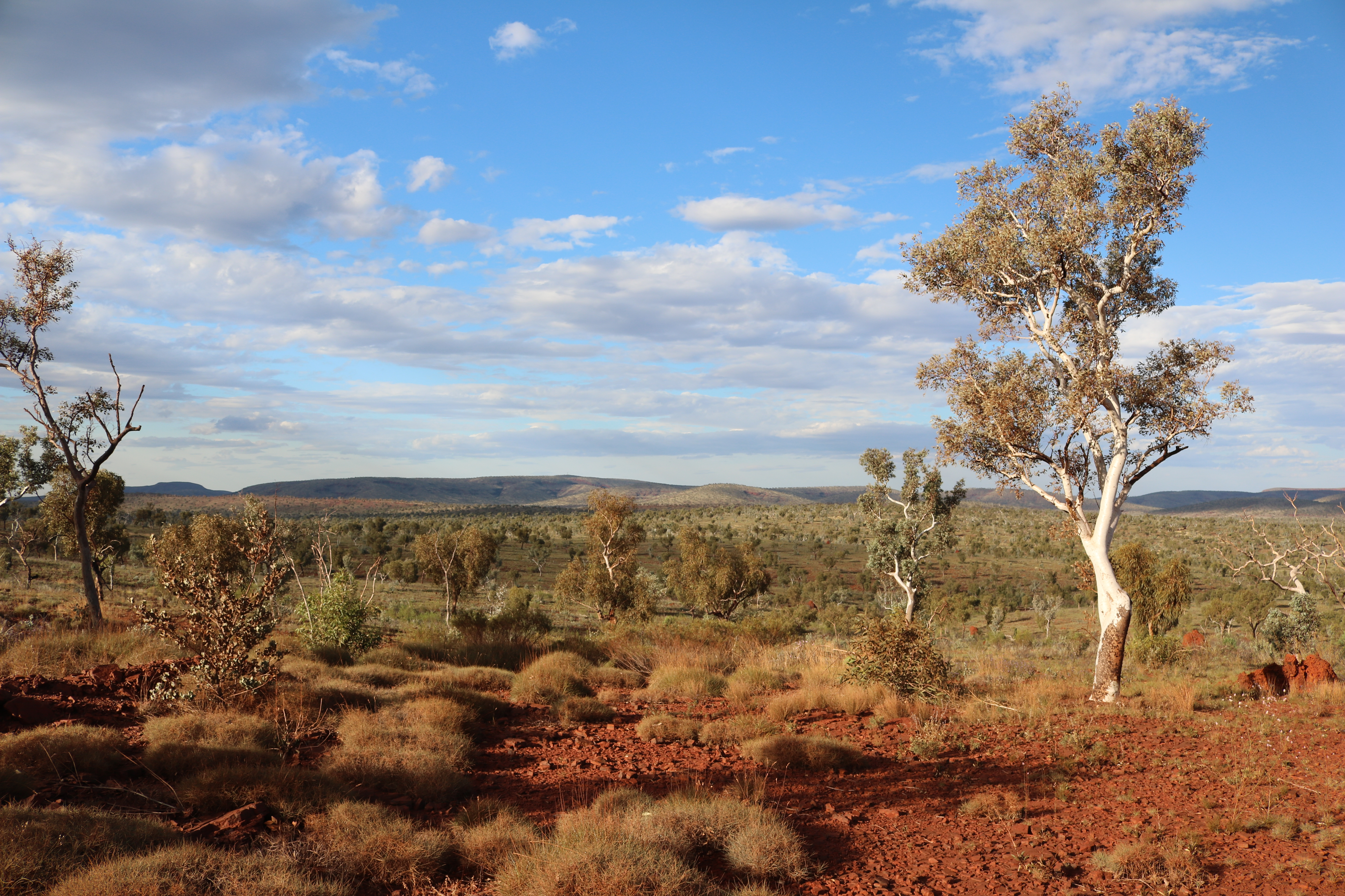 Another overview shot of KNP showing colours and vastness